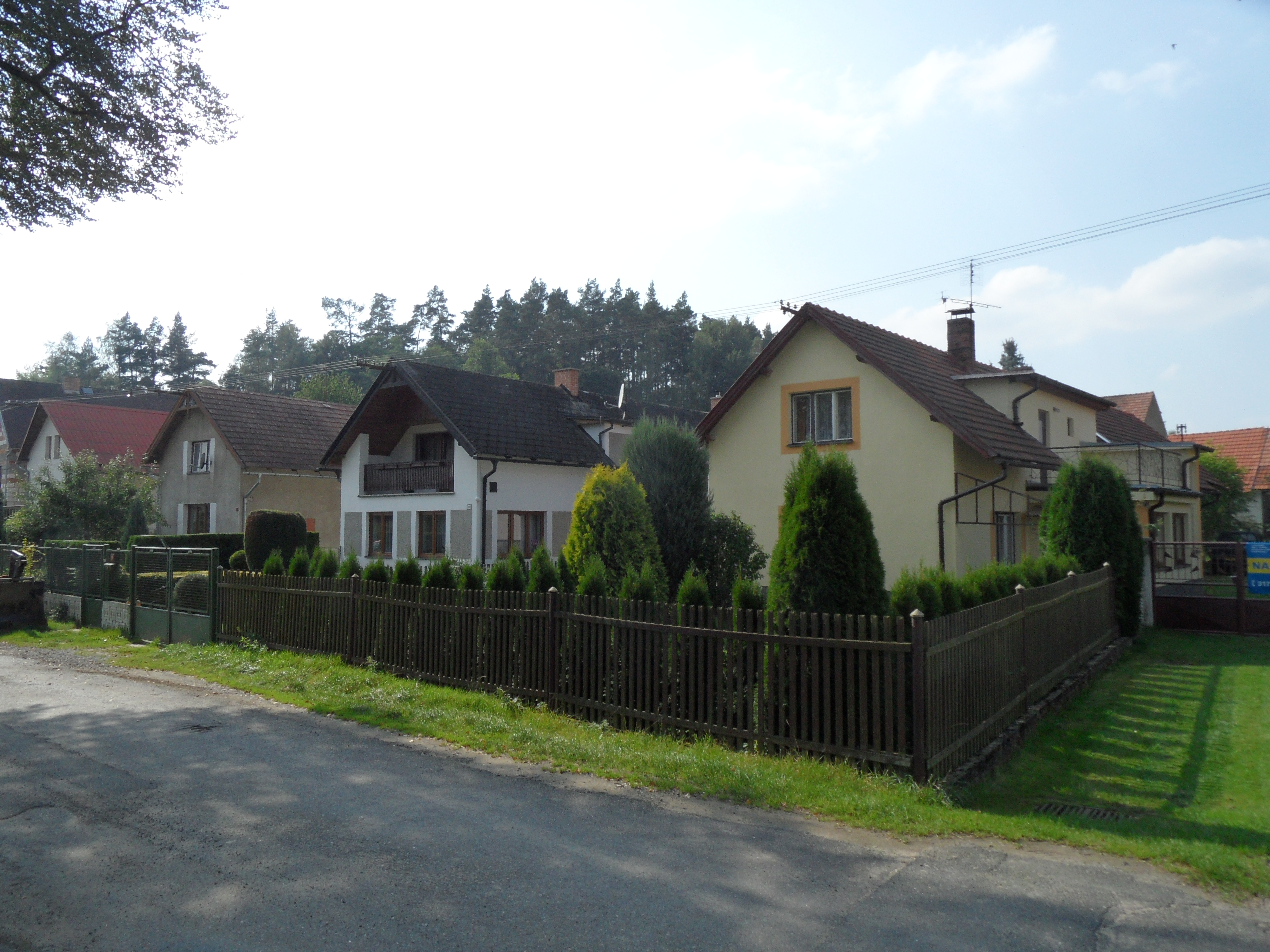 Čížov (Chabeřice) D. Houses along Road, Kutná Hora District, the Czech Republic.